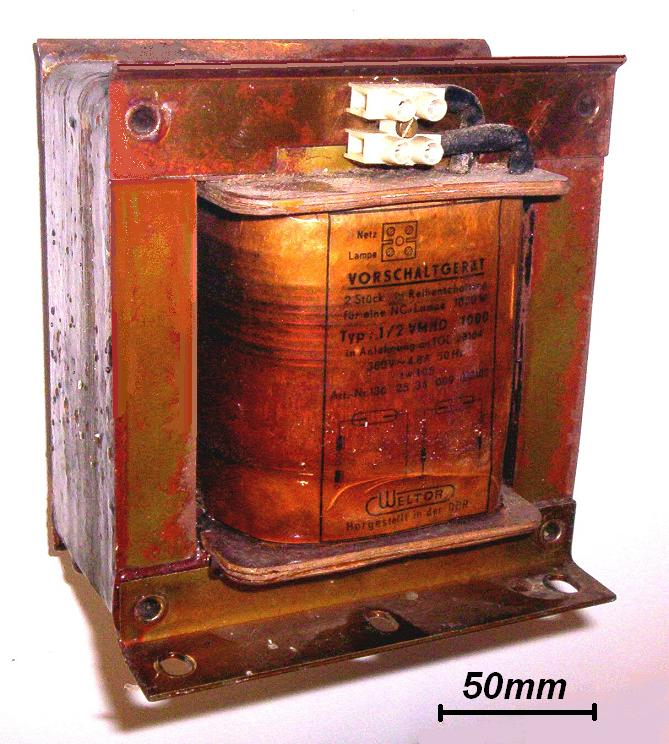 Ballast (CCG) for a high-pressure metal halide lamp - one of two reactors for 1 kW lamp operating at 400 V.